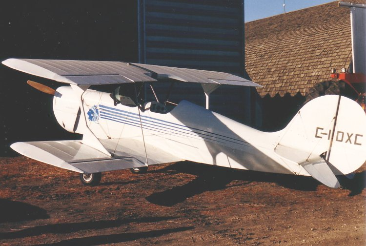 I took this photo of a Murphy Renegade II biplane in Manitoba on 13 November 1987